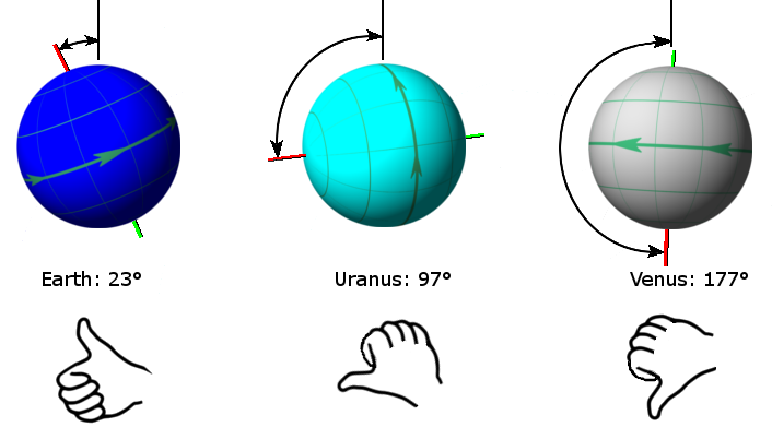 Comparison of the tilt of the rotation axis to the plane of the orbit for three planets: Earth, Uranus, Venus. Includes a right-hand-rule demonstration. Right hand graphic derived from File:Right-hand_grip_rule.svg